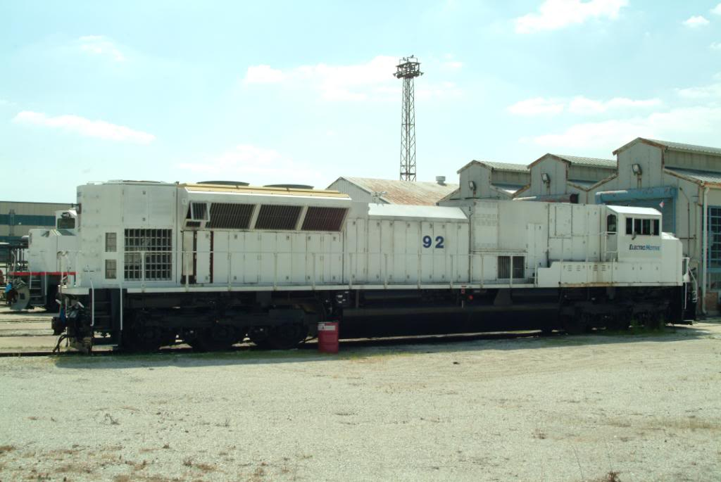 EMD's experimental SD89MAC at La Grange, IL.